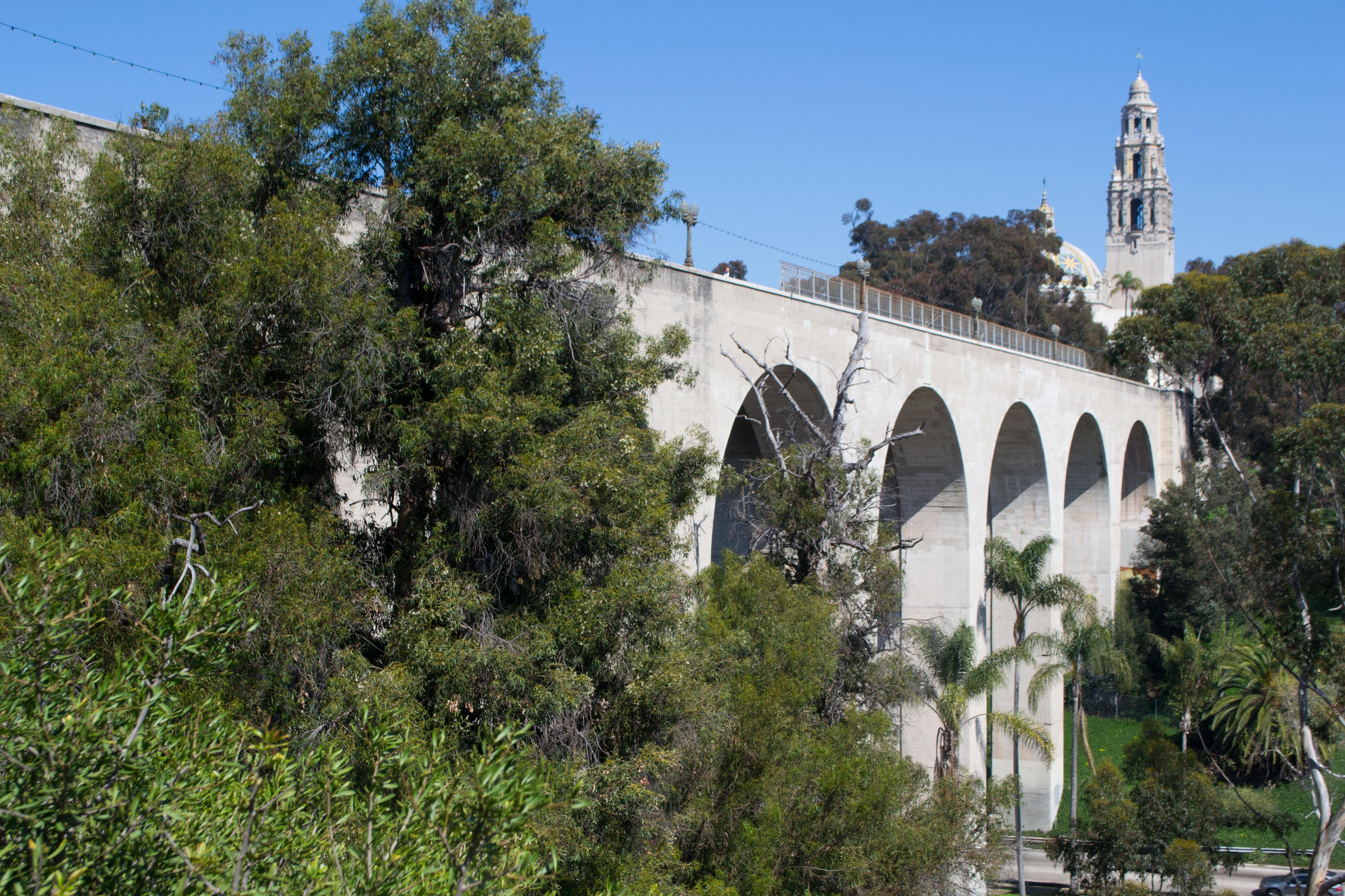 The west side of the Cabrillo Bridge